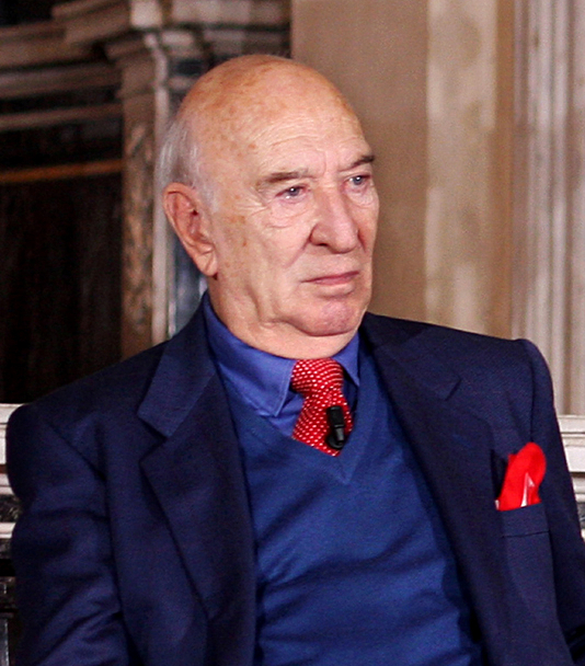 Giuliano Montaldo - Foto di G. M. Ireneo Alessi (Sinix Lab)